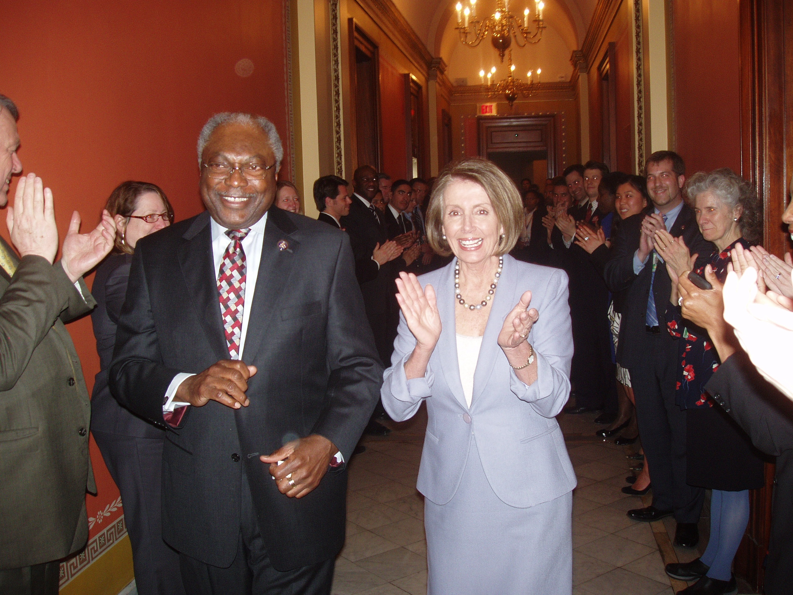 Speaker staff cheer Speaker Pelosi and Whip Clyburn after the historic passage of health reform.